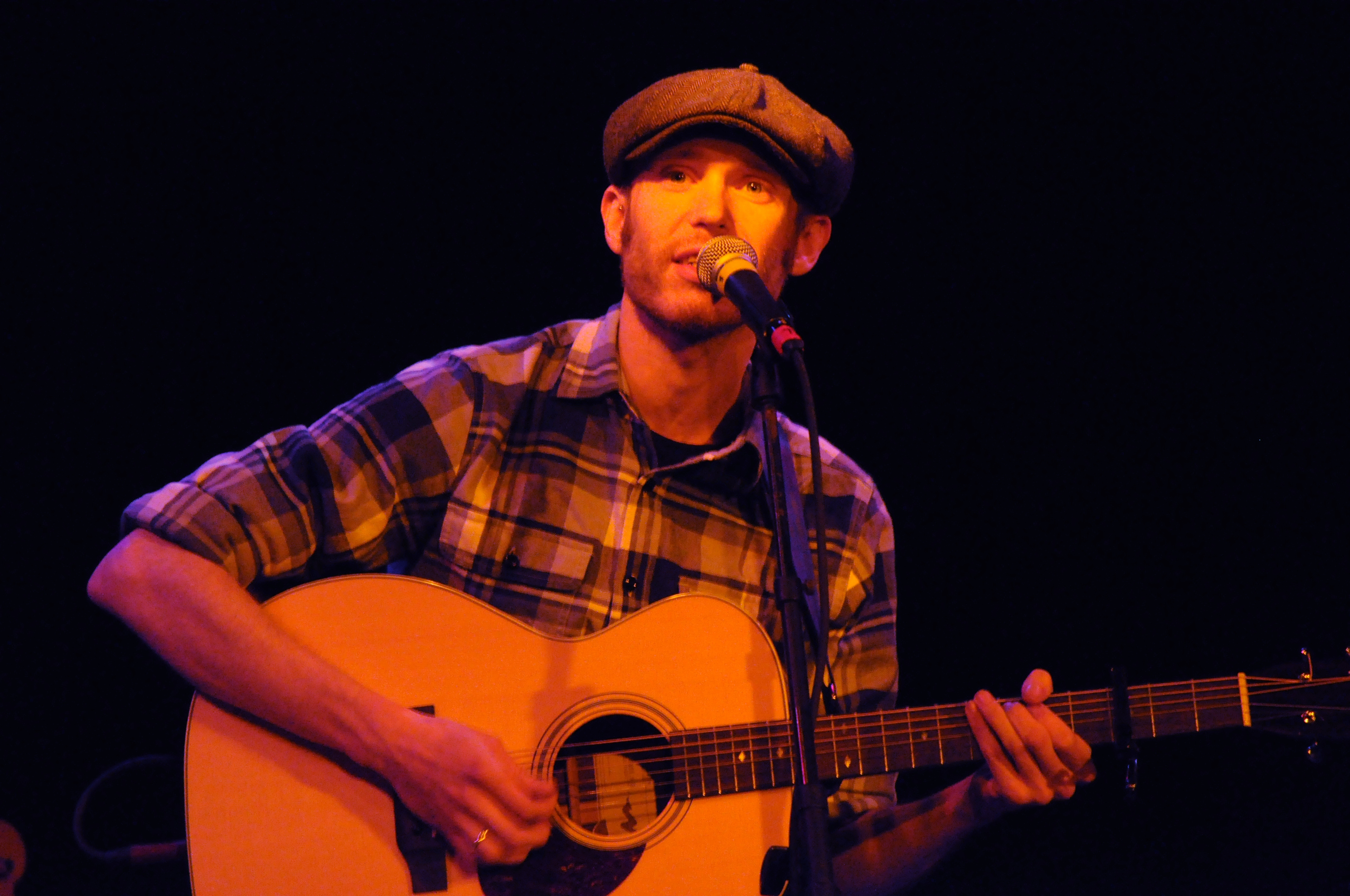 Musician Kasey Anderson performing as part of a tribute to Townes van Zandt on the 67th anniversary of his birth. Tractor Tavern, Ballard, Seattle, Washington.